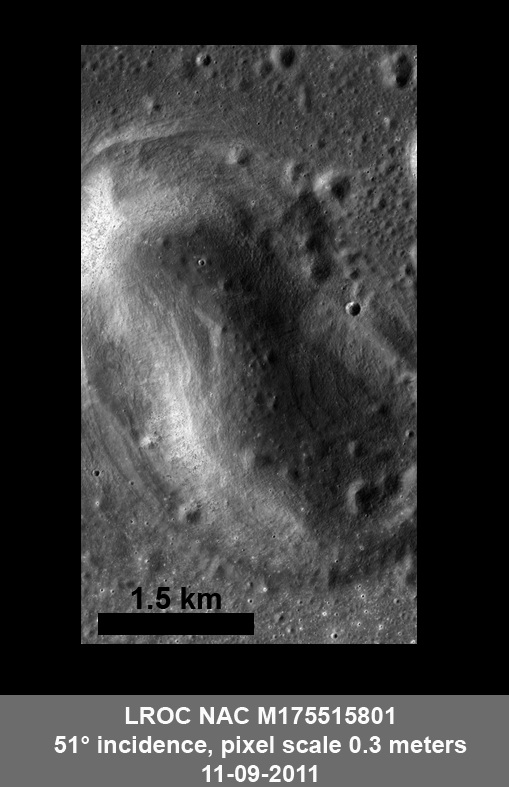 The lower-incidence LROC NAC image reveals the interior of Brayley G, which contains many boulders along the inside wall and more collapse features.